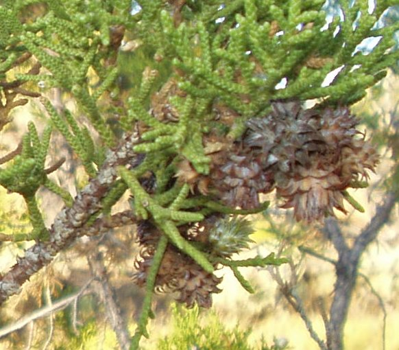 Utah Juniper leaves and galls. Photo taken near Reno, Nevada